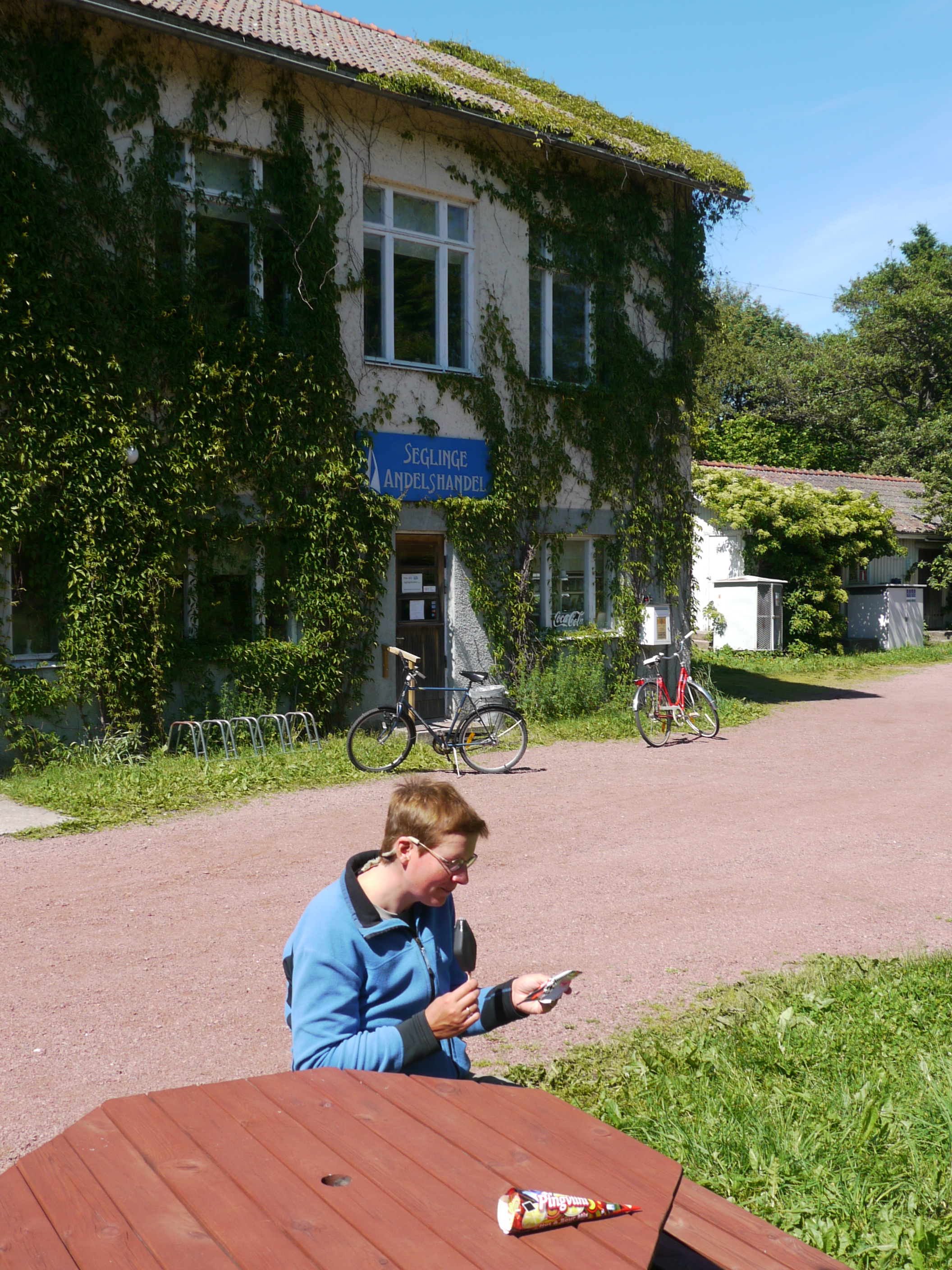 The local shop on the isle of Seglinge, near Kumlinge (Åland)